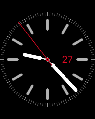 Sample of an Apple Watch watch face in watchOS